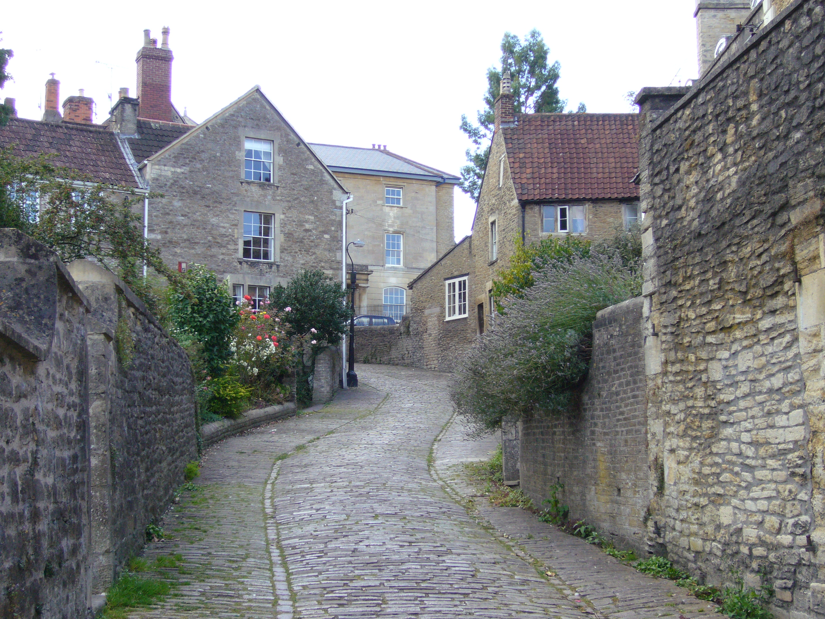 Gentle Street in Frome. Photographed in September 2007. Required attribution is: Photo by Tom Oates.